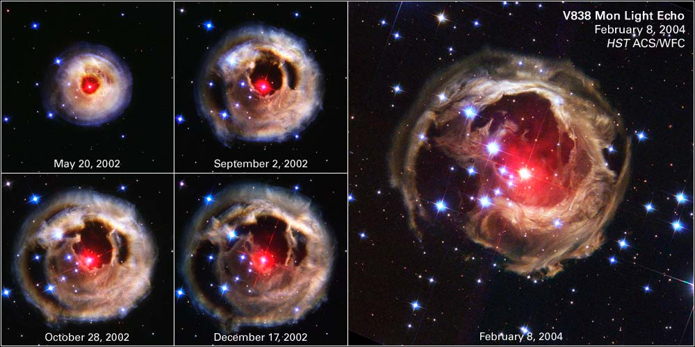 Successive photos of V838 Monocerotis showing the progress of a light echo.